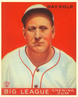 1933 Goudey baseball card of Ray Kolp of the Cincinnati Reds #150. PD-not-renewed.